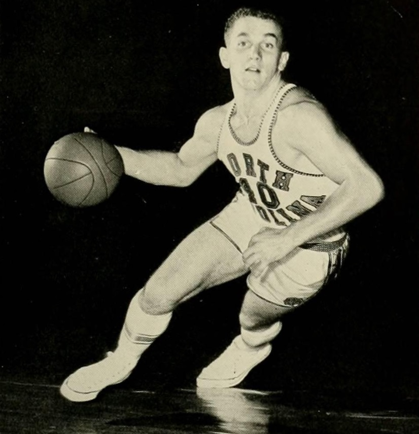 North Carolina basketball player Tommy Kearns from the 1957 "Yackity Yack" yearbook